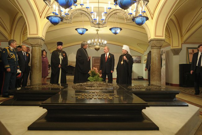 Visiting the Cathedral of St Prince Vladimir Equal to the Apostles.